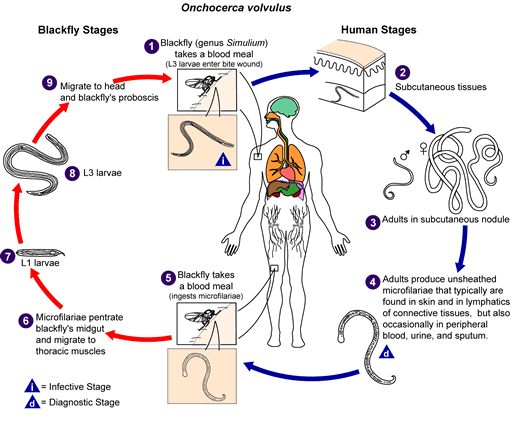 Filariasis Life cycle of Onchocerca volvulus During a blood meal, an infected blackfly (genus Simulium) introduces third-stage filarial larvae onto the skin of the human host, where they penetrate into the bite wound. In subcutaneous tissues the larvae develop into adult filariae, which commonly reside in nodules in subcutaneous connective tissues. Adults can live in the nodules for approximately 15 years. Some nodules may contain numerous male and female worms. Females measure 33 to 50 cm in length and 270 to 400 μm in diameter, while males measure 19 to 42 mm by 130 to 210 μm. In the subcutaneous nodules, the female worms are capable of producing microfilariae for approximately 9 years. The microfilariae, measuring 220 to 360 µm by 5 to 9 µm and unsheathed, have a life span that may reach 2 years. They are occasionally found in peripheral blood, urine, and sputum but are typically found in the skin and in the lymphatics of connective tissues. A blackfly ingests the microfilariae during a blood meal. After ingestion, the microfilariae migrate from the blackfly's midgut through the hemocoel to the thoracic muscles. There the microfilariae develop into first-stage larvae and subsequently into third-stage infective larvae. The third-stage infective larvae migrate to the blackfly's proboscis and can infect another human when the fly takes a blood meal.